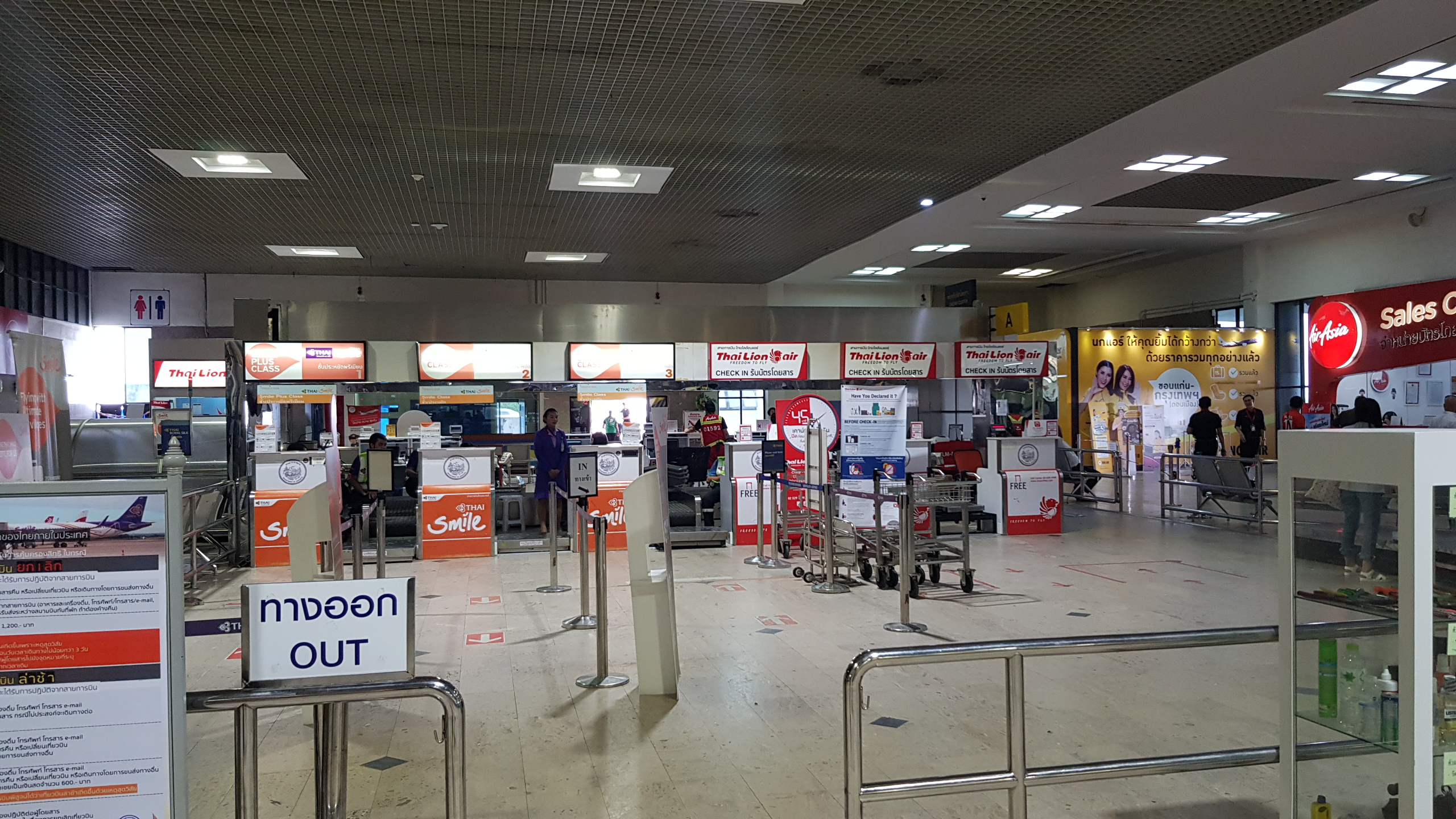 Check In counter of Khon Kaen Airport